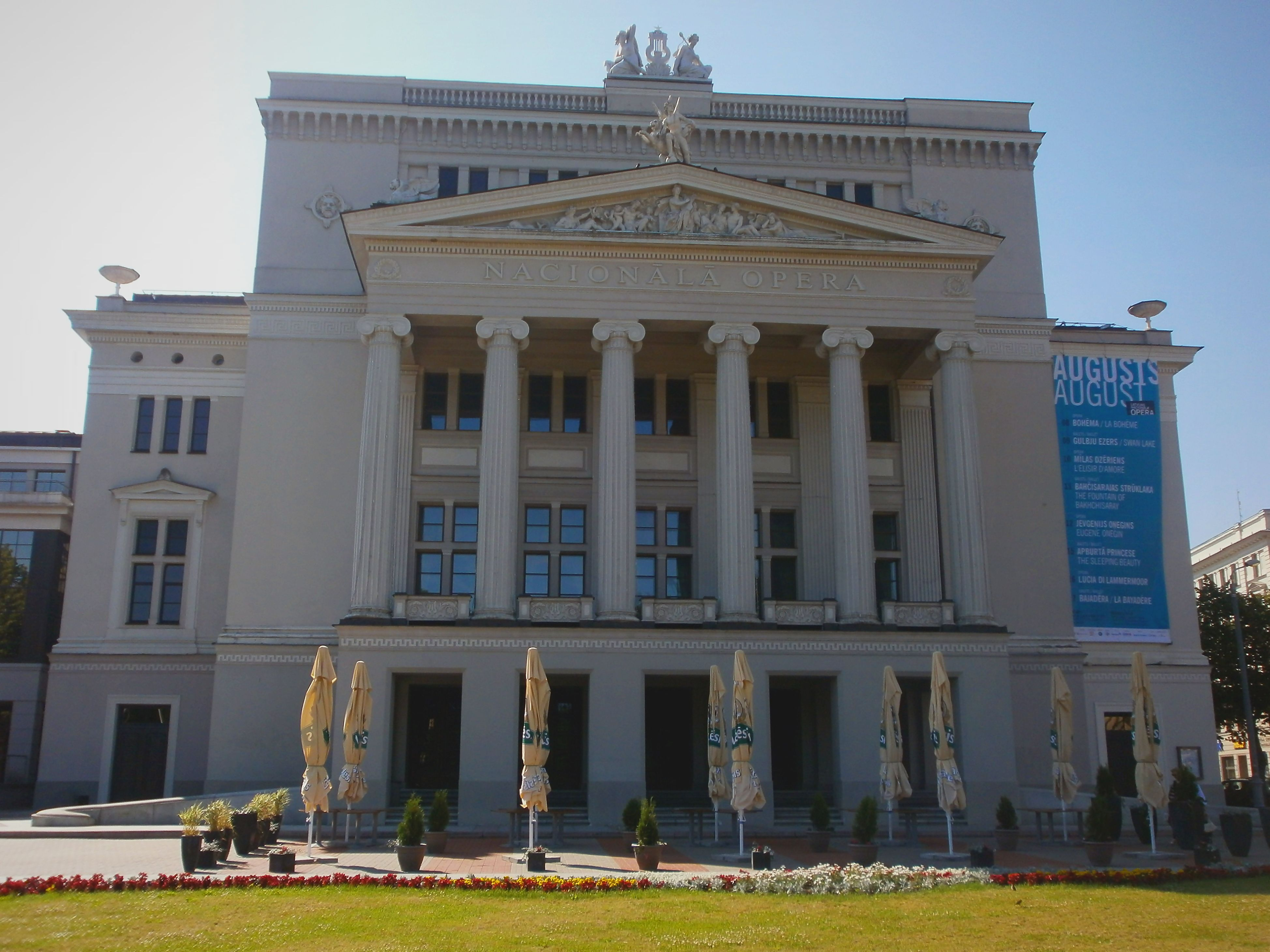 Latvian National Opera